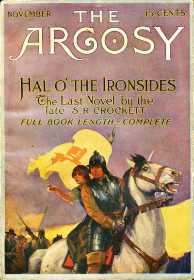 The Argosy, November 1914